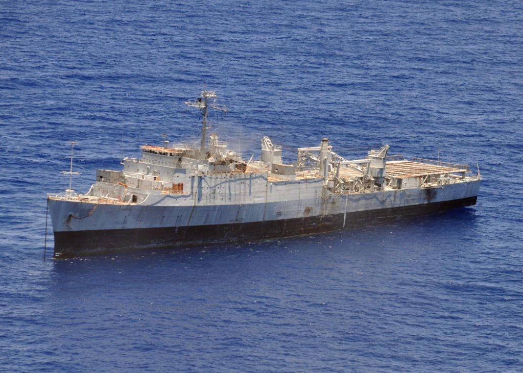 The decommissioned U.S. Navy dock landing ship USS Monticello (LSD-35) at anchor on 14 July 2010, 110 km off Kauai, Hawaii (USA). Monticello was the target for a SINKEX during RIMPAC 2010. She was towed to the site from Pearl Harbor by USNS Navajo (T-ATF-169) on 12 July 2010 and sunk by AGM-65 Maverick missiles fired by Lockheed P-3C Orion aircraft from patrol squadrons VP-4 and VP-40.